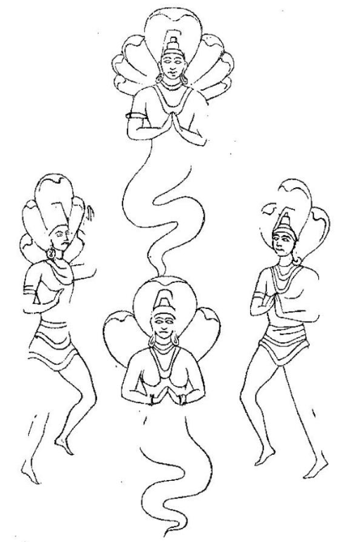 Nagas caricatured by Buddhists from Andhrula Charitram-Part1-Page109